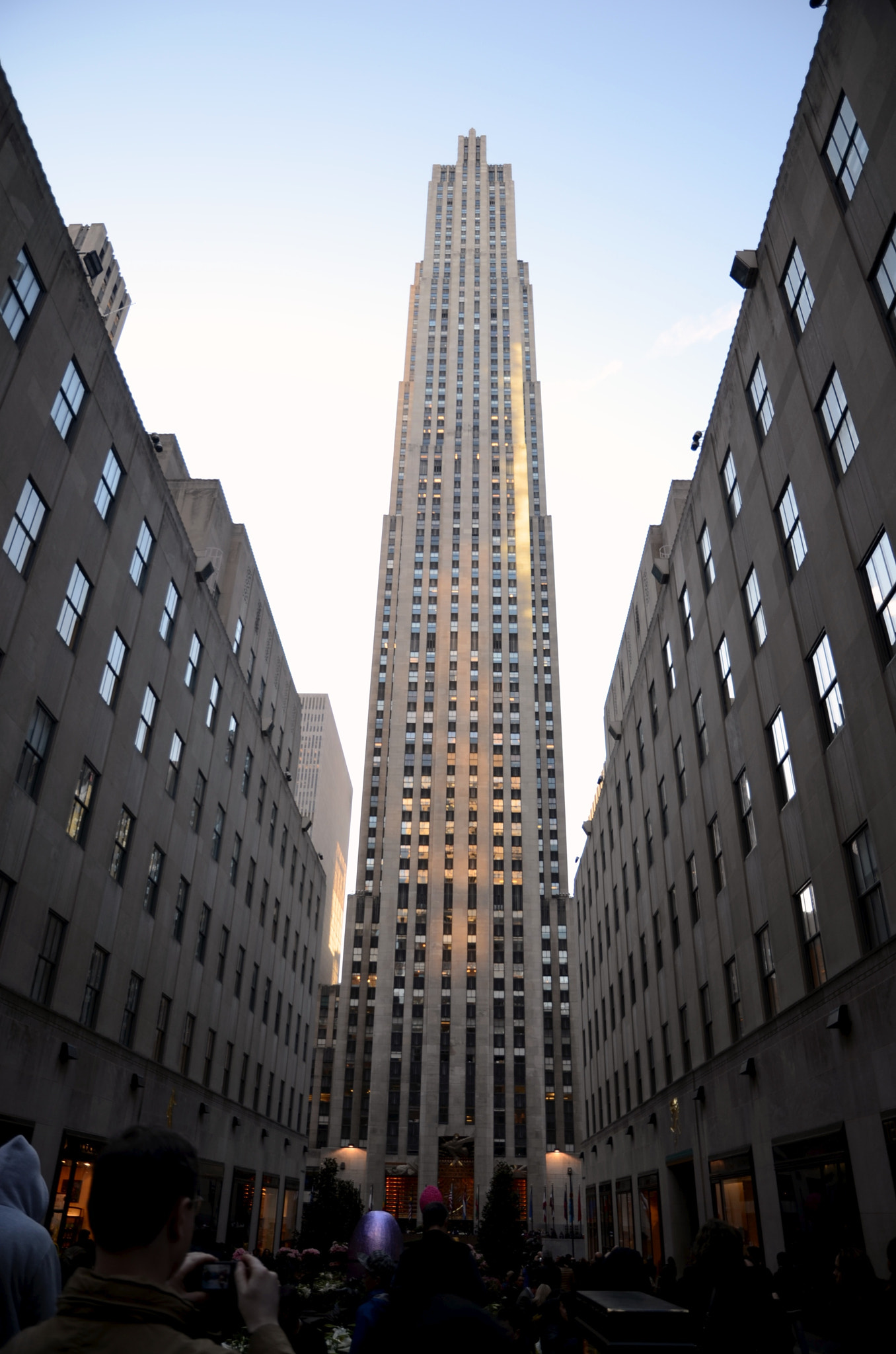 500px provided description: Rockefeller Centre. [#new york ,#nyc ,#times square]